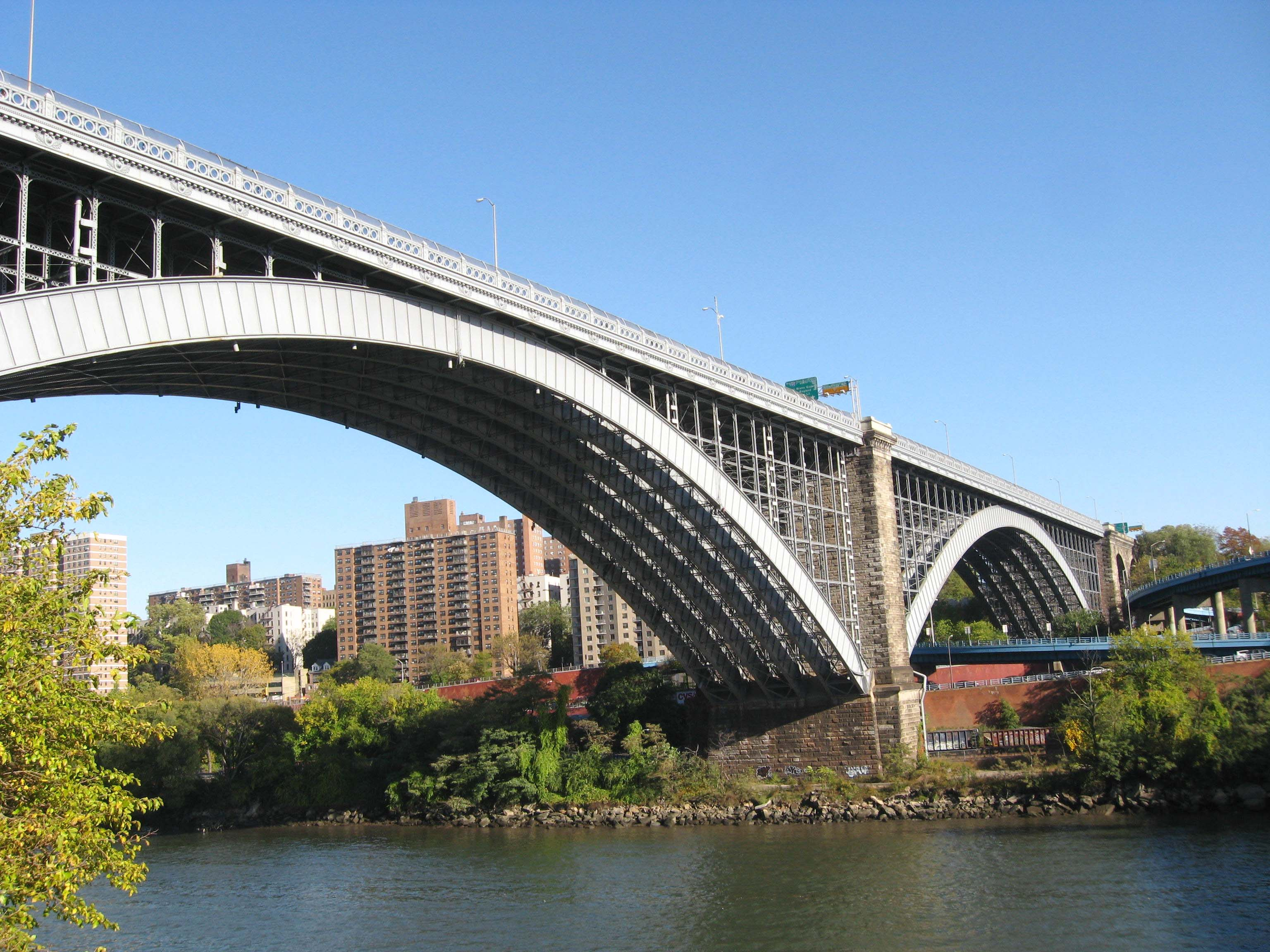 Looking up and across Harlem River Drive from near water level at Washington Bridge on a sunny midday